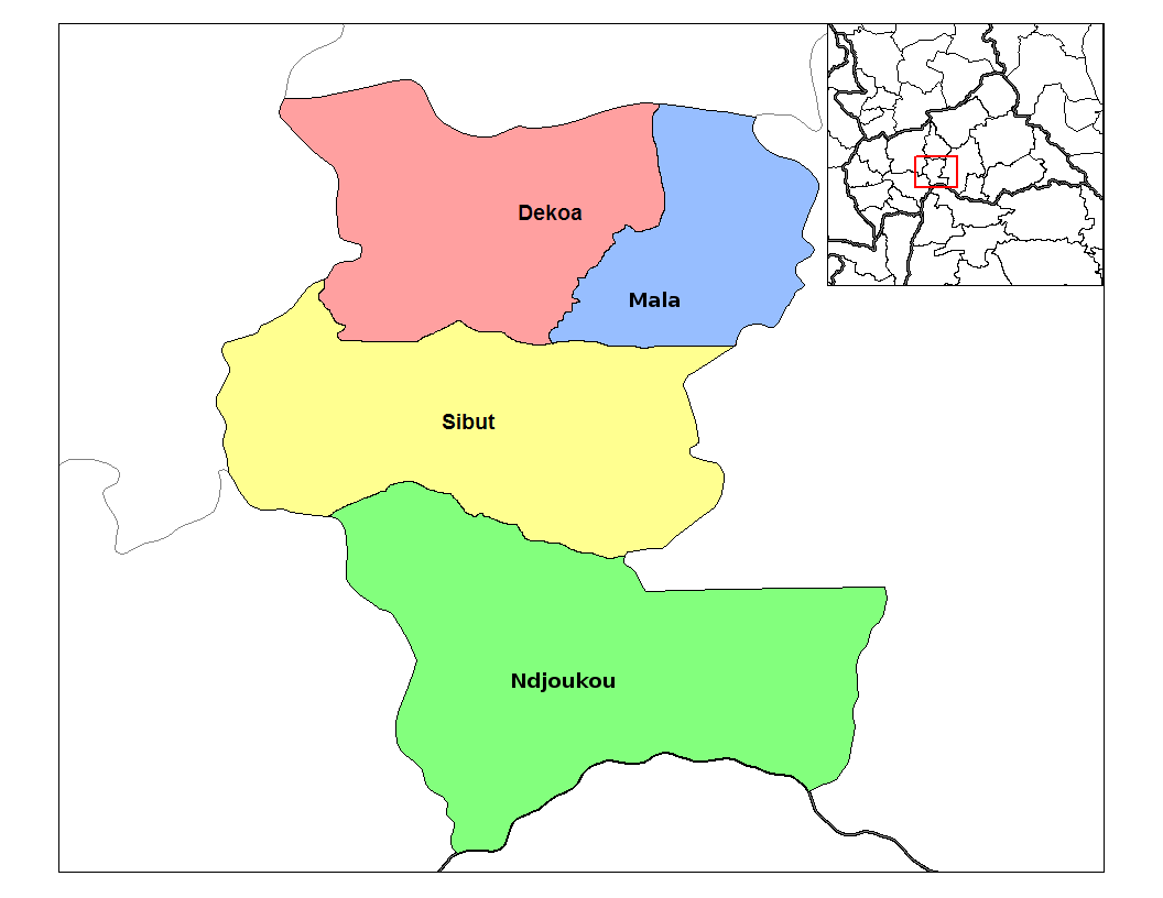 Map of the sub-prefectures of Kemo prefecture in the Central African Republic. Created by Rarelibra 19:52, 31 August 2006 (UTC) for public domain use, using MapInfo Professional v8.5 and various mapping resources.